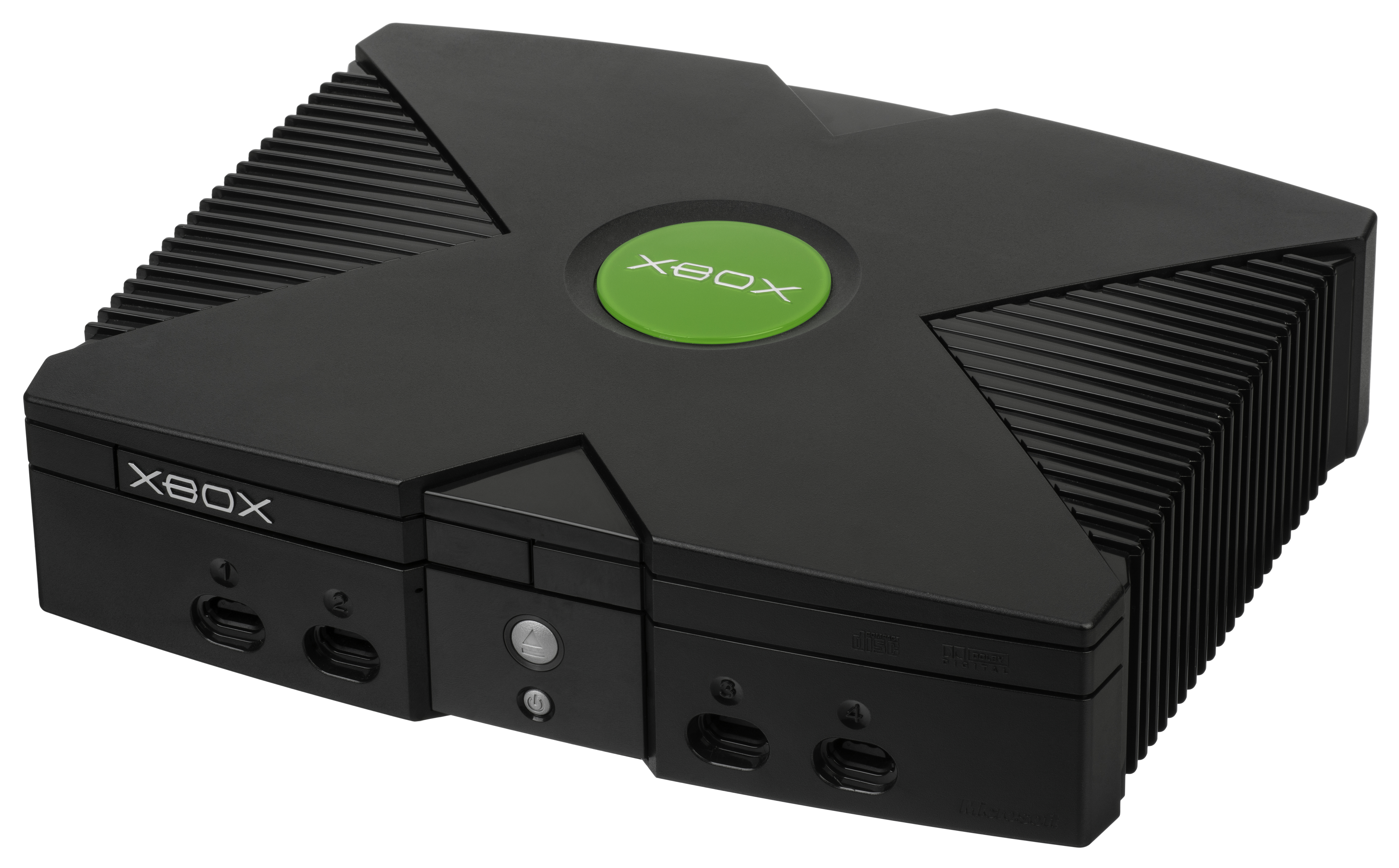 The Xbox, a sixth-generation gaming console made by Microsoft that was first released in 2001. The Xbox was Microsoft's first foray into the gaming console market, and was followed by the Xbox 360 in 2005. The console is notable for having a built-in hard drive, breakaway controller dongles and an Ethernet port to support Microsoft's online gaming service, Xbox Live.